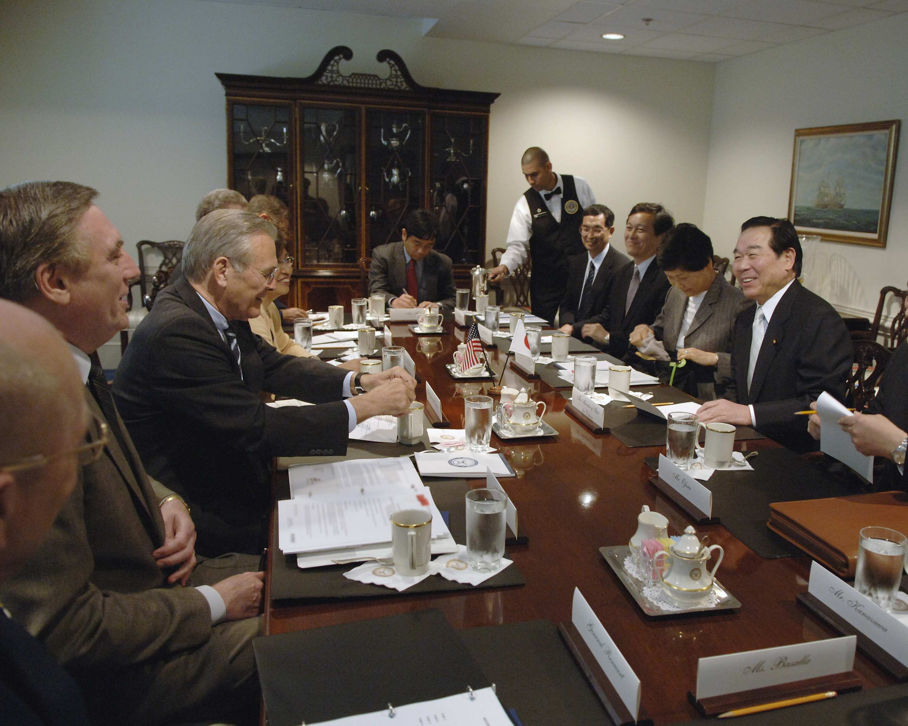 Secretary of Defense Donald H. Rumsfeld (second from left) meets with Japanese Minister of State for Defense Fukushiro Nukaga (right) in the Pentagon on May 3, 2006. Rumsfeld, Nukaga and their senior advisors are discussing defense issues of mutual interest. From left to right: Deputy Under Secretary of Defense for Asia and Pacific Affairs Richard Lawless, Rumsfeld, interpreter, Director of the Japanese Defense Agency Defense Operations Division Atsuo Suzuki, Director of the Japanese Defense Agency Budget and Accounting Division Daikichi Momma, Embassy of Japan Deputy Chief of Mission Akitaka Saiki; interpreter, Nukaga.